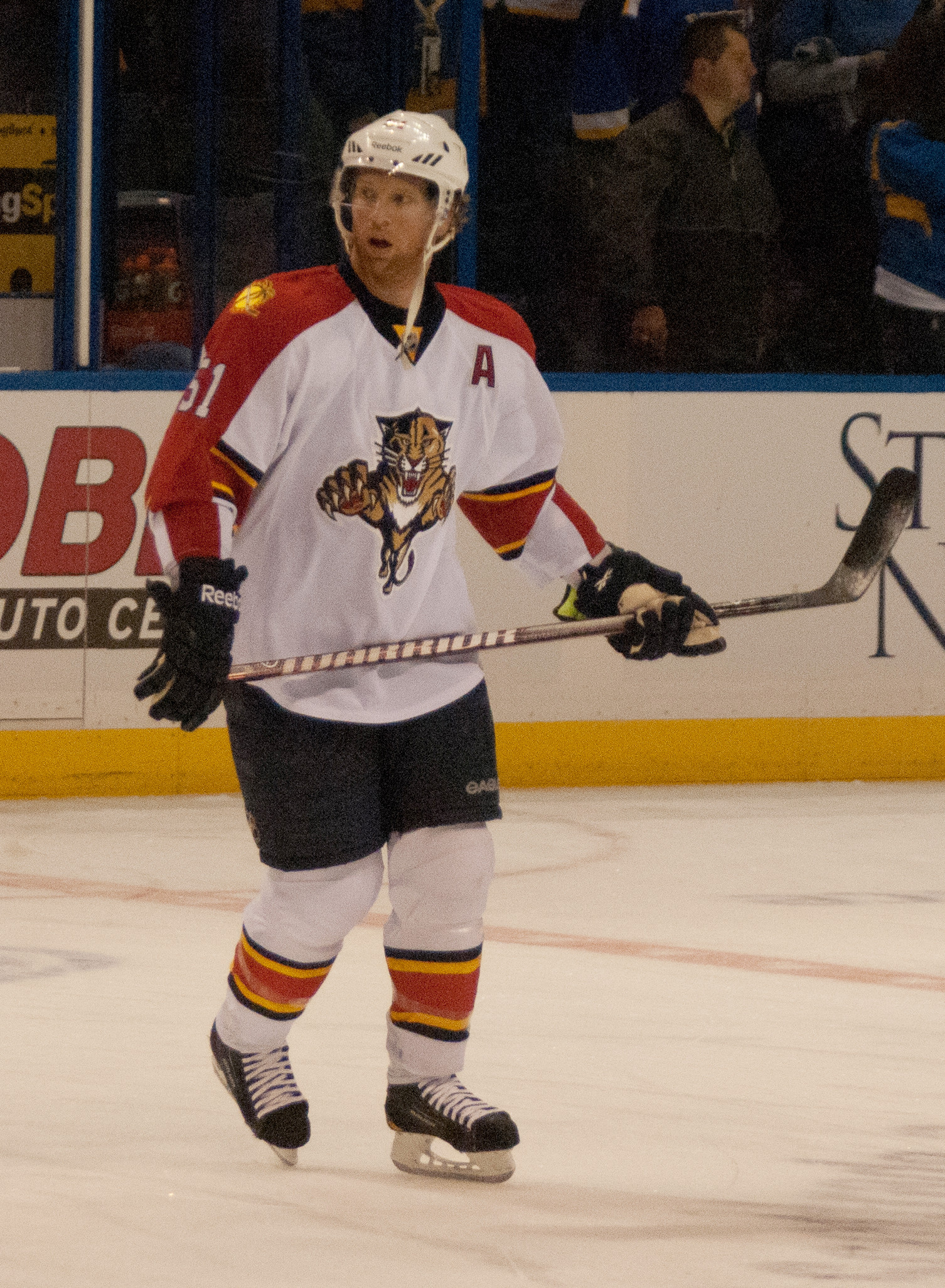 Brian Campbell of the Florida Panthers in a game against the St. Louis Blues